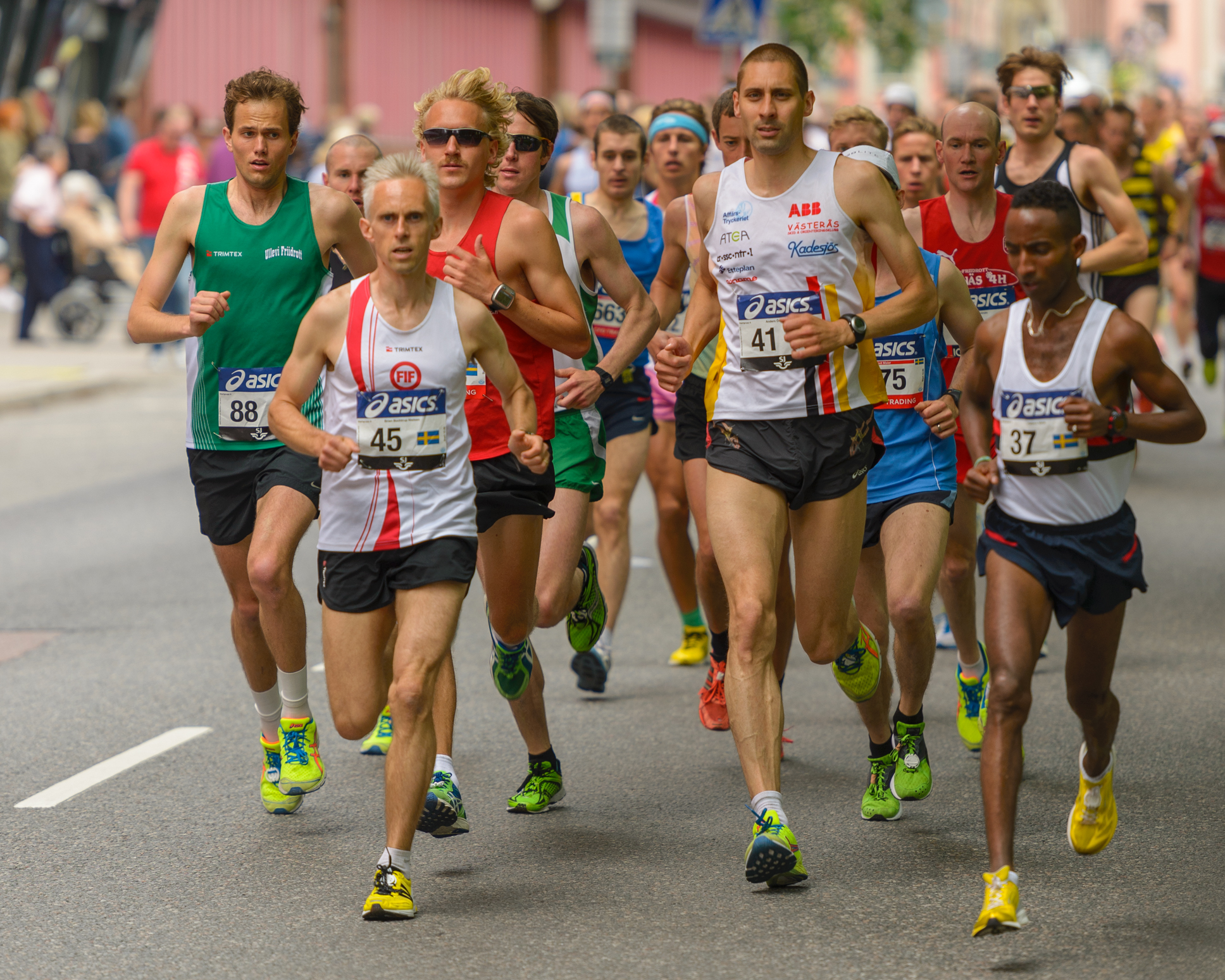 Stockholm Marathon 2013